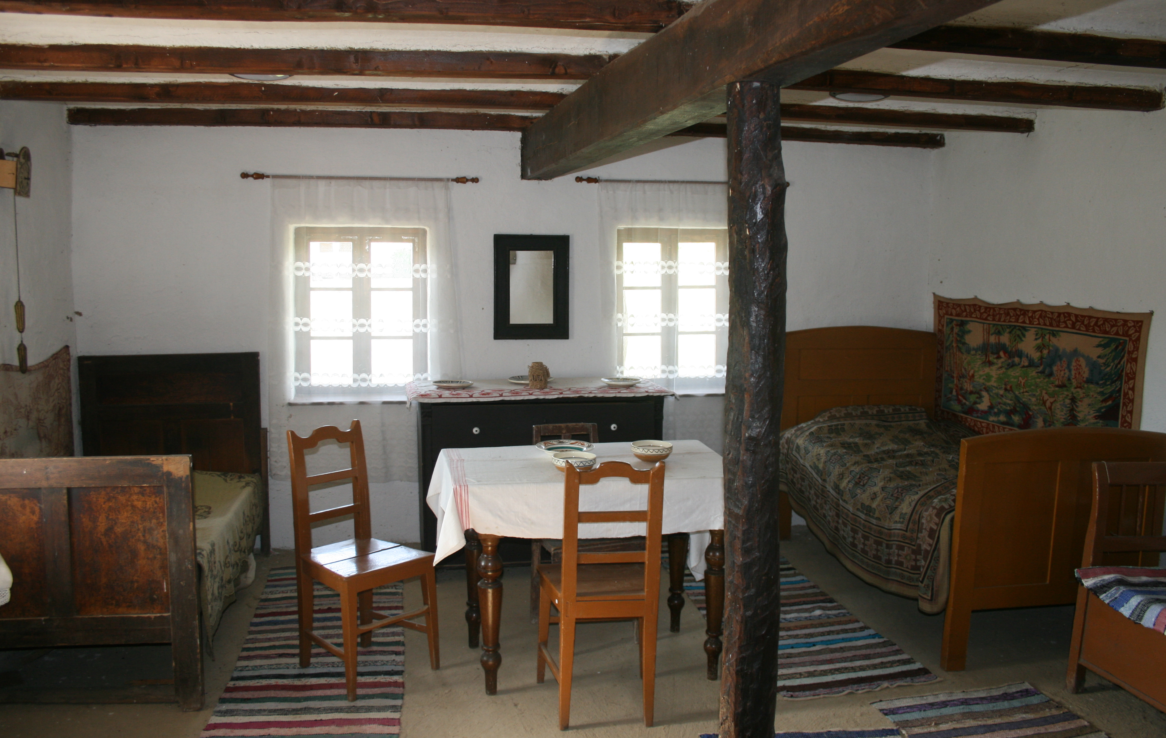 House from Beszterec